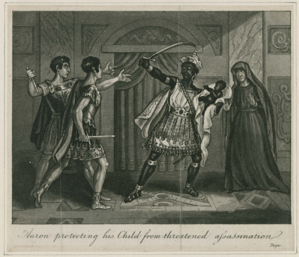 Illustration of Act IV, Scene II from Titus Andronicus